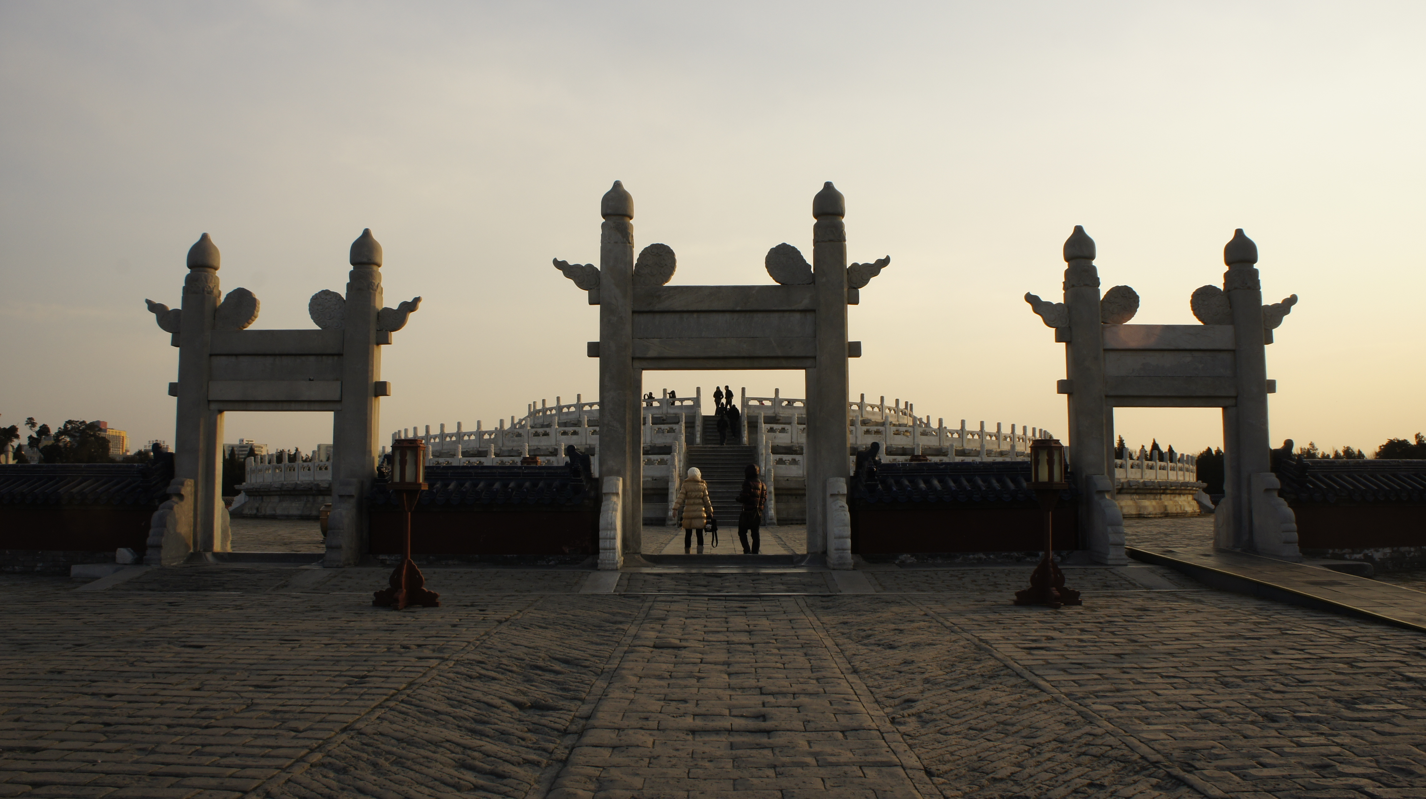 Lingxing Gate (棂星门) of the Circular Mound Altar at the Temple of Heaven.